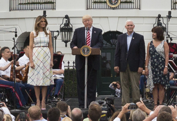 (Official White House Photo by Joyce N. Boghosian)